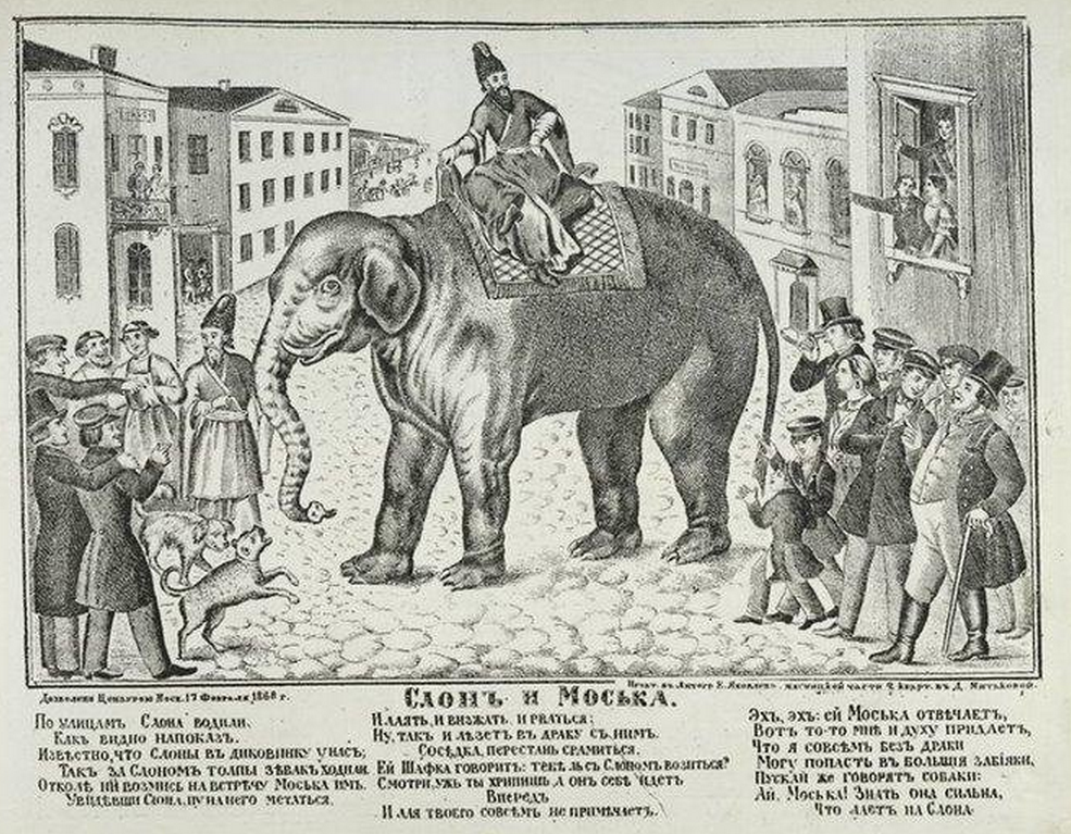 A lubok based on the fable by I. A. Krylov "Elephant and Pug" (Слон и Моська)